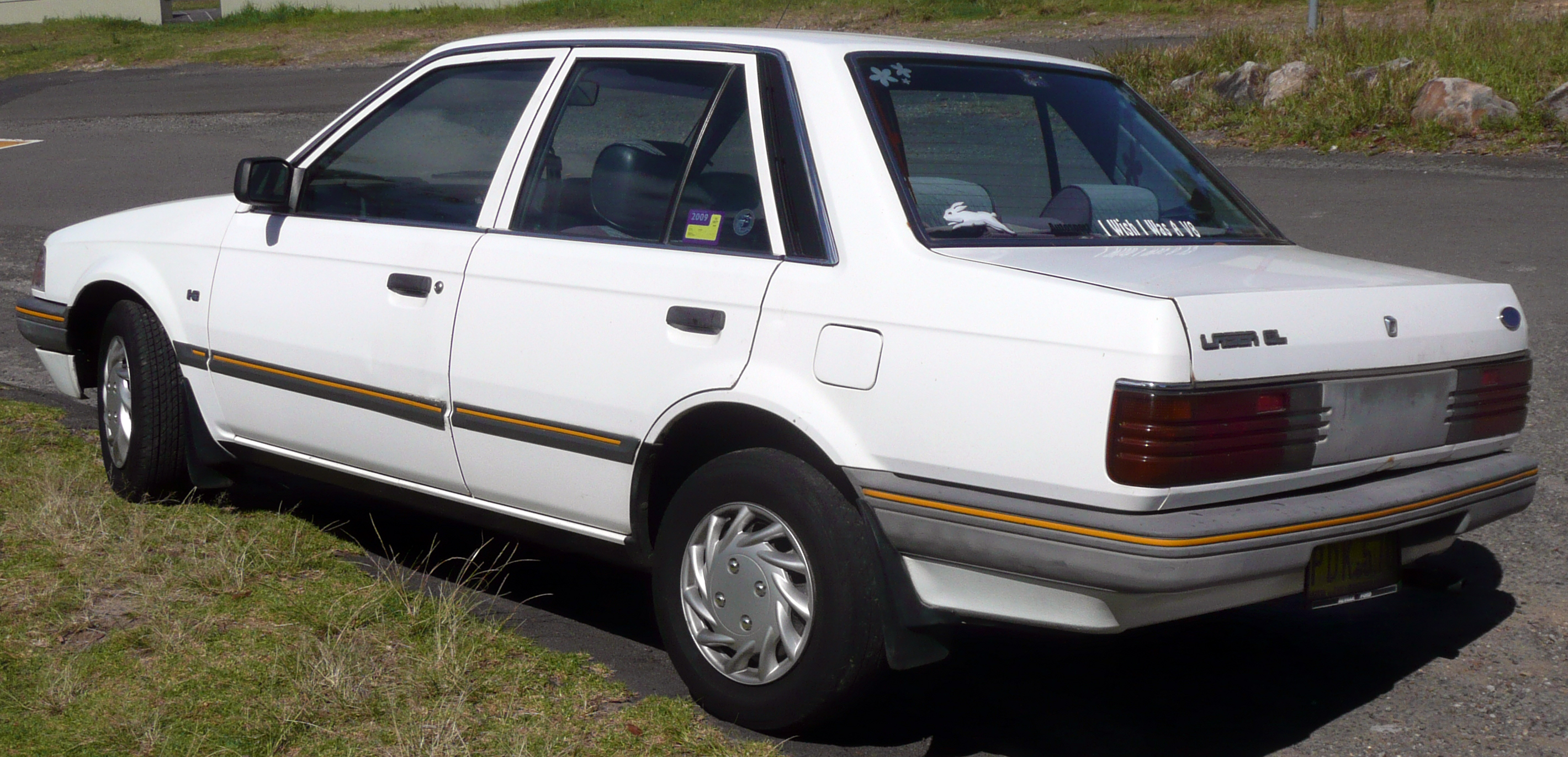 1988 Ford Laser (KE) GL Livewire sedan. Photographed in New South Wales, Australia.